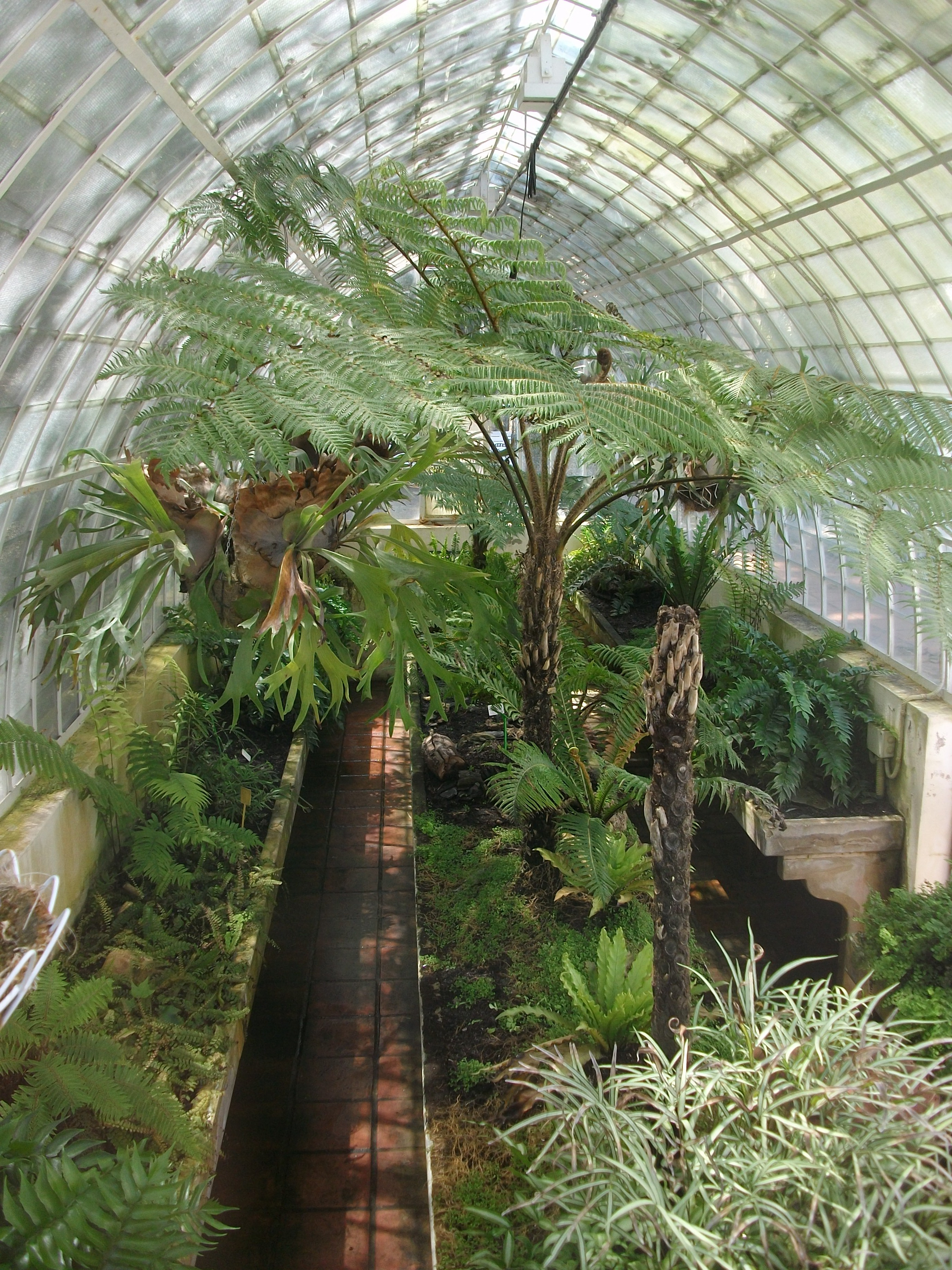 Botanical garden of València.